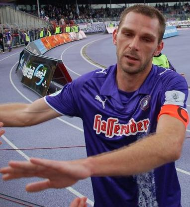 Tomasz Kos from FC Erzgebirge Aue